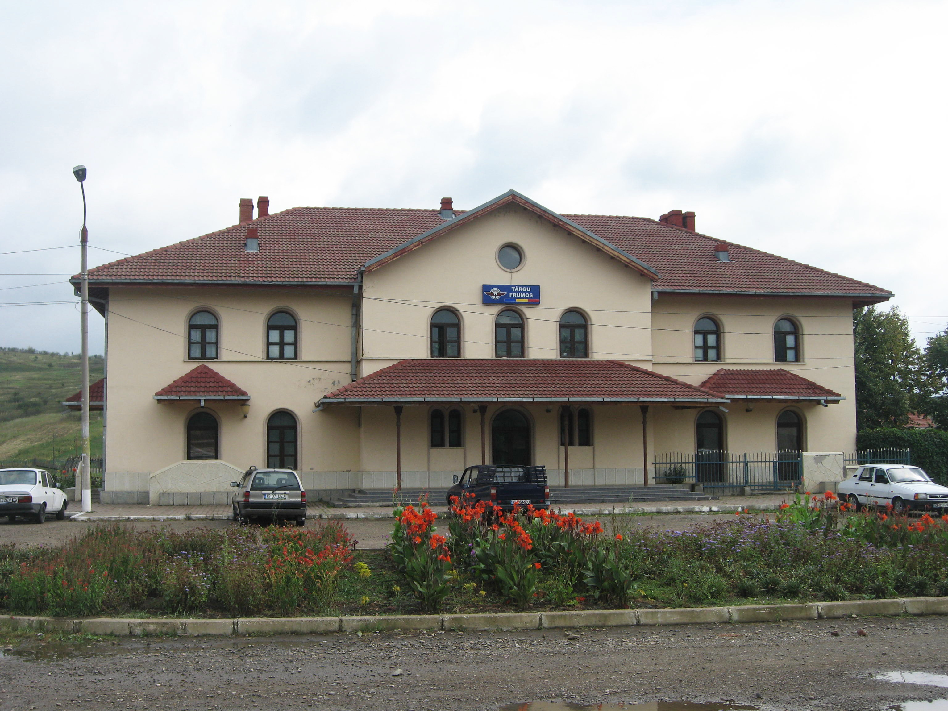 The railway station of Tg. Frumos, Romania